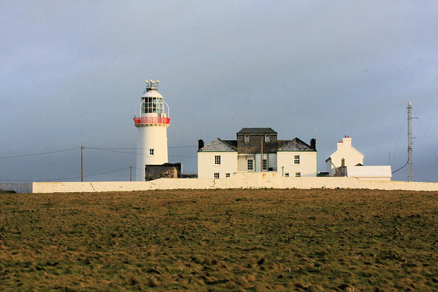 Loop Head lighthouse. The lighthouse is situated on a narrow peninsula that forms the westernmost part of the county of Clare. See 1088798